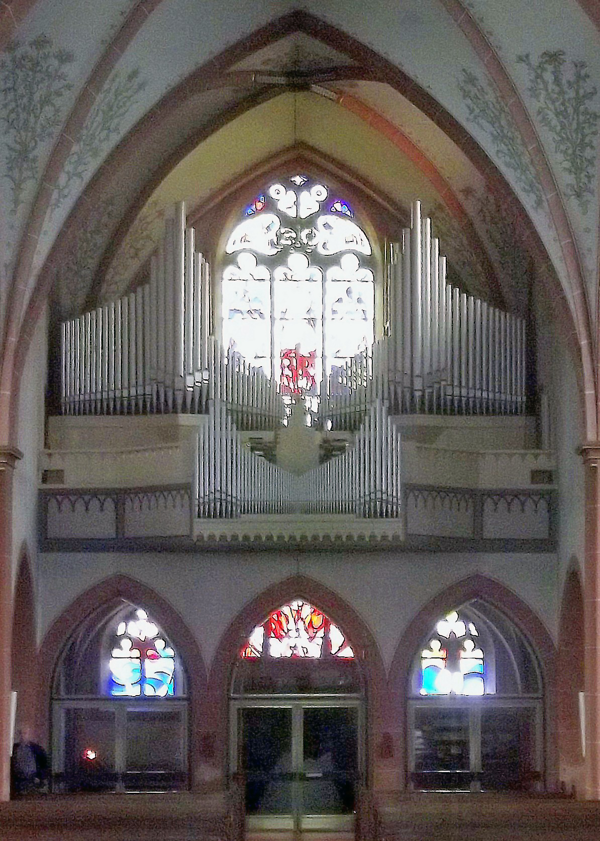 Interior of the roman catholic church in Oberthal, Saarland